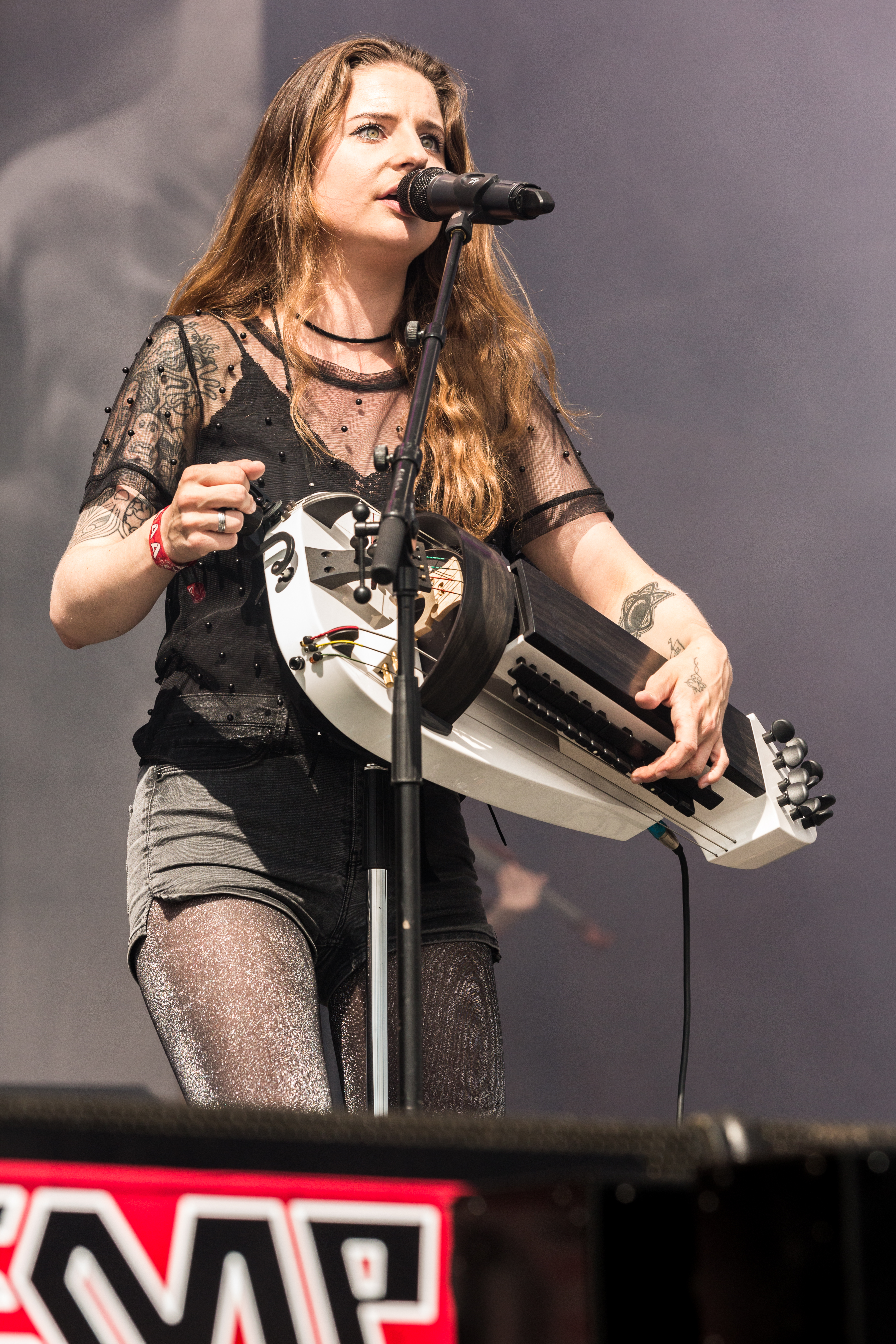 The Swiss folk metal band Cellar Darling at the Summer Breeze Open Air 2017 in Dinkelsbühl/Germany.